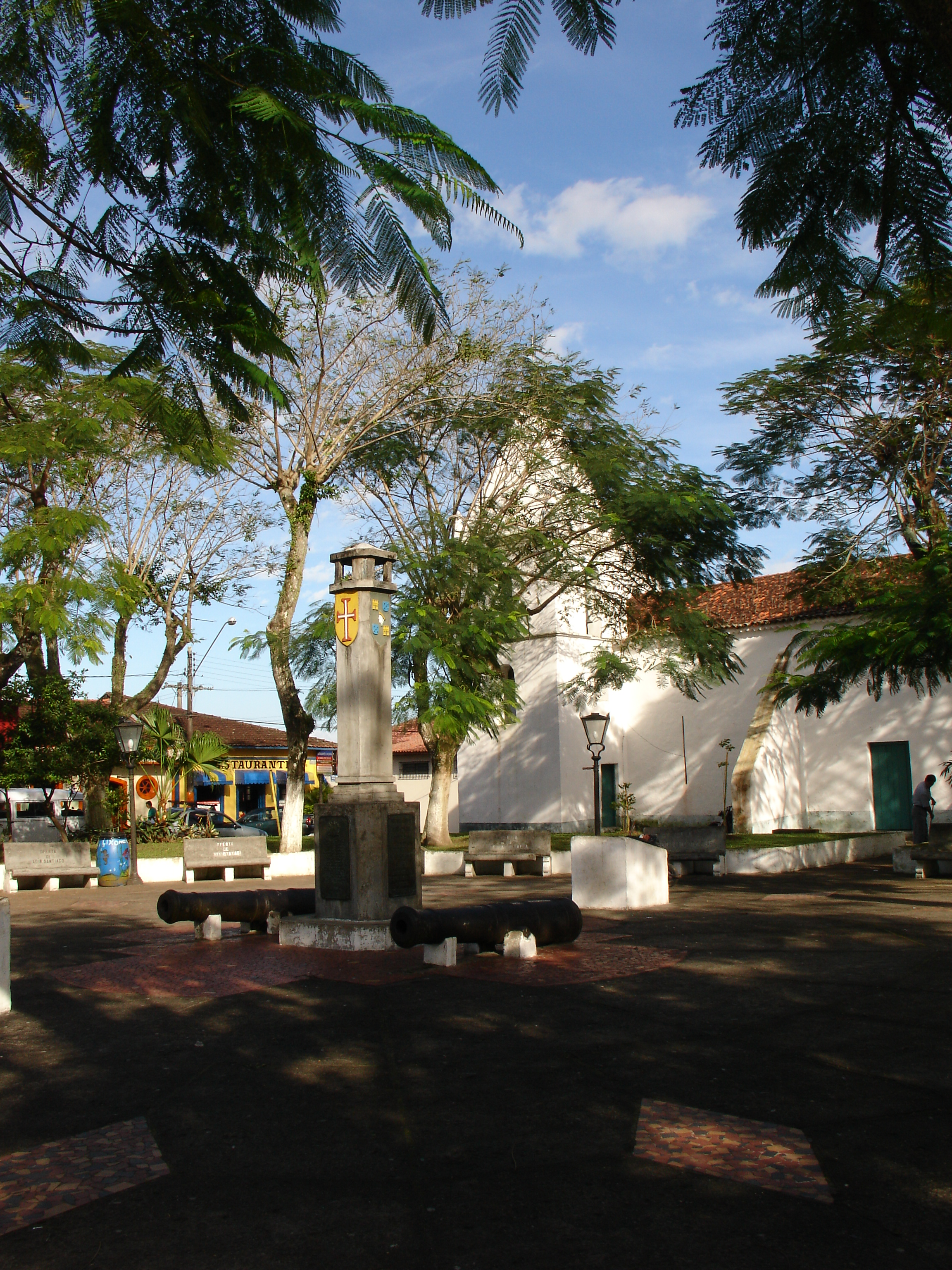 The obelisk of Cananéia, São Paulo, Brazil.